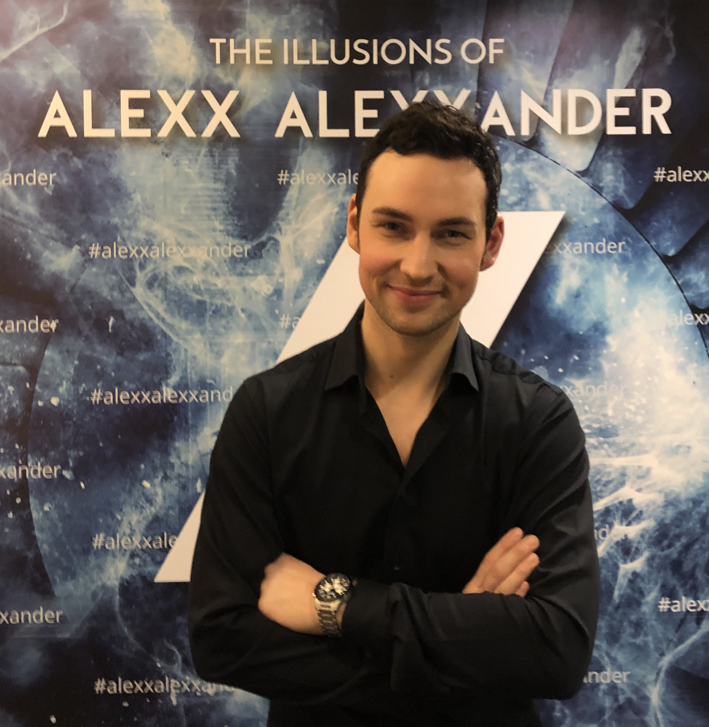 Norwegian illusionist Alexx Alexxander, after an event at Skjervøy kulturhus, in Skjervøy, Norway.